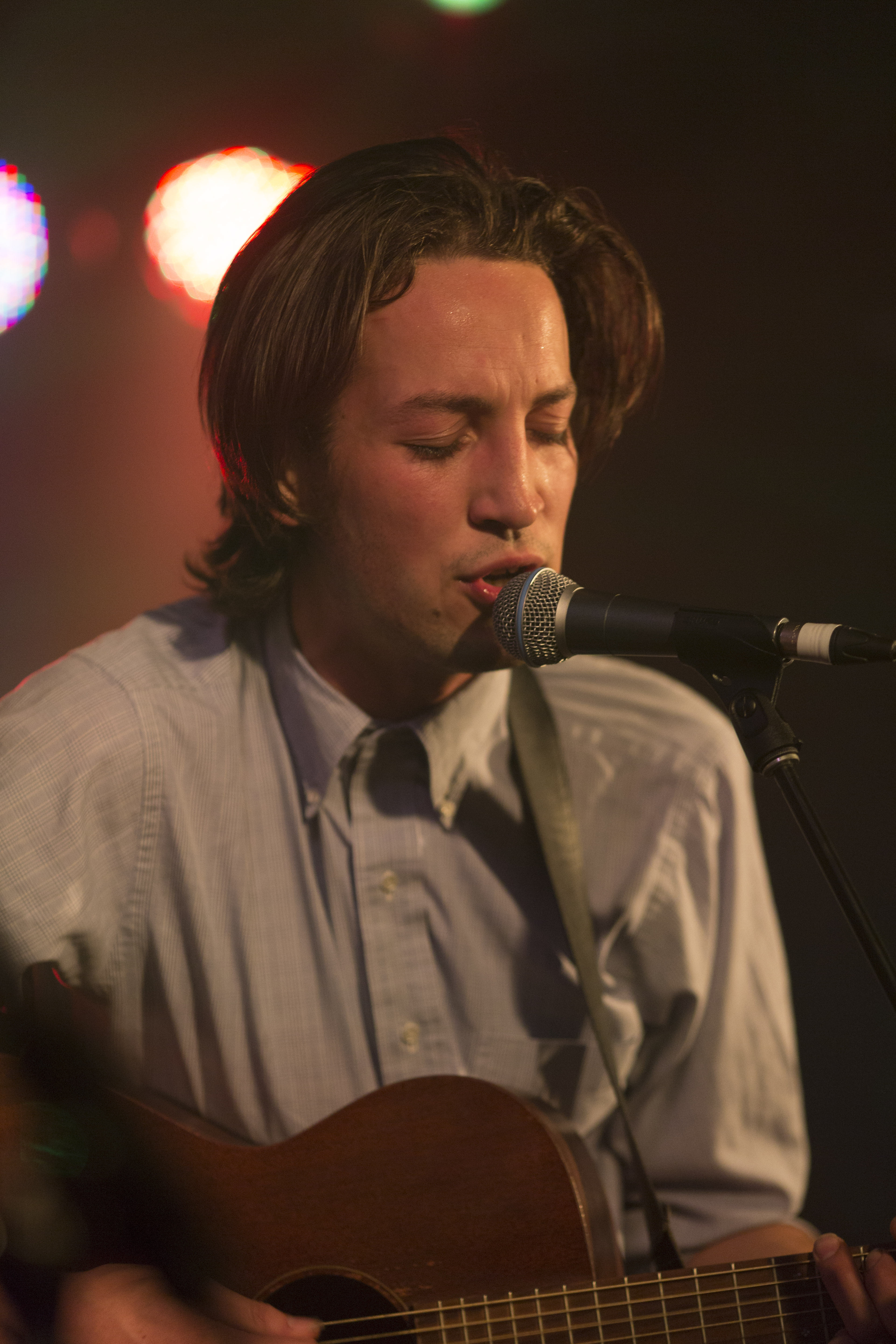 Oxford Arts Factory - 21st November 2015